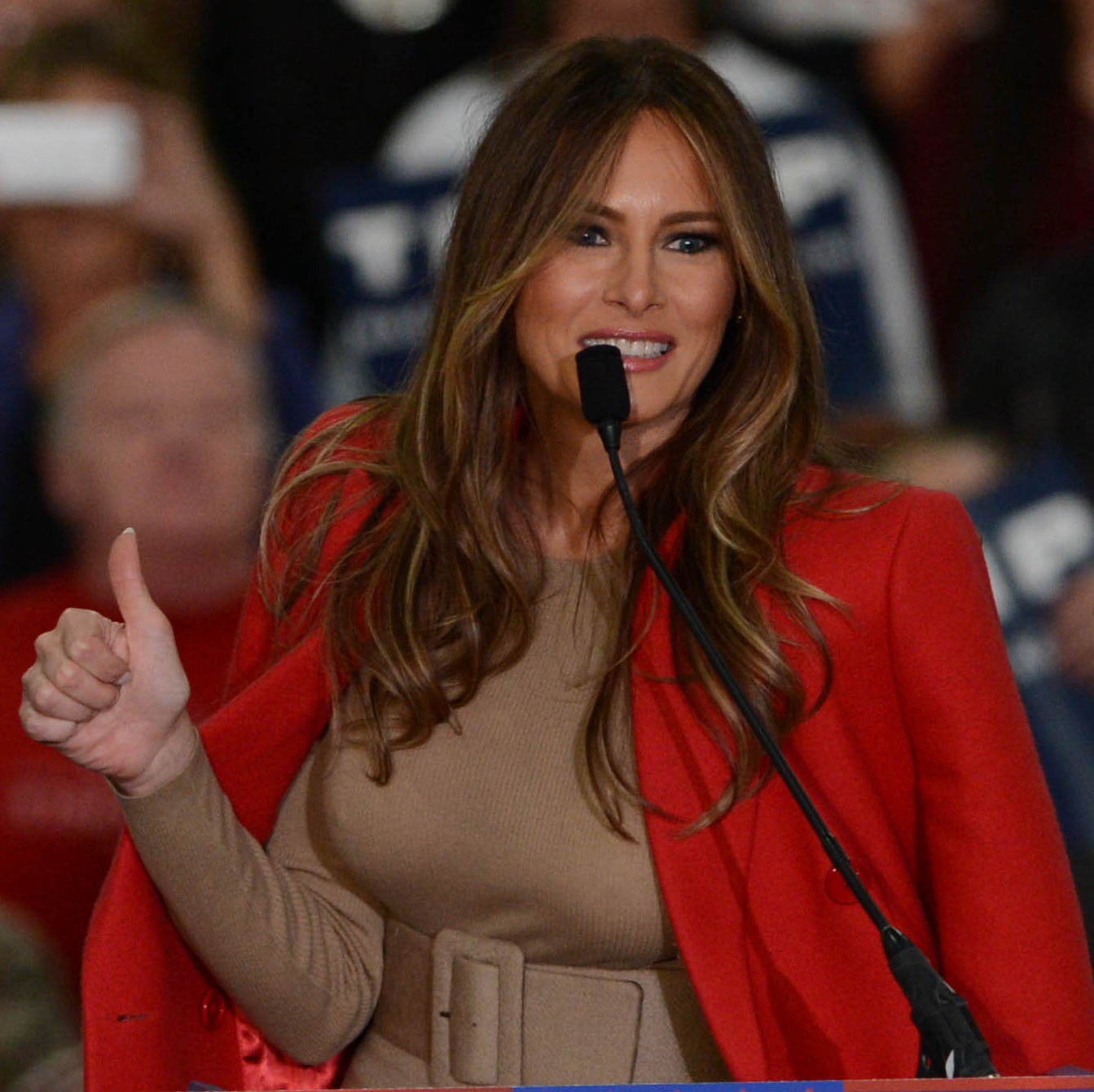 First Lady of the United States Melania Trump speaking at a campaign event for her husband in 2015.